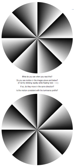 example of PDI figure from Faubert and Herbert poster